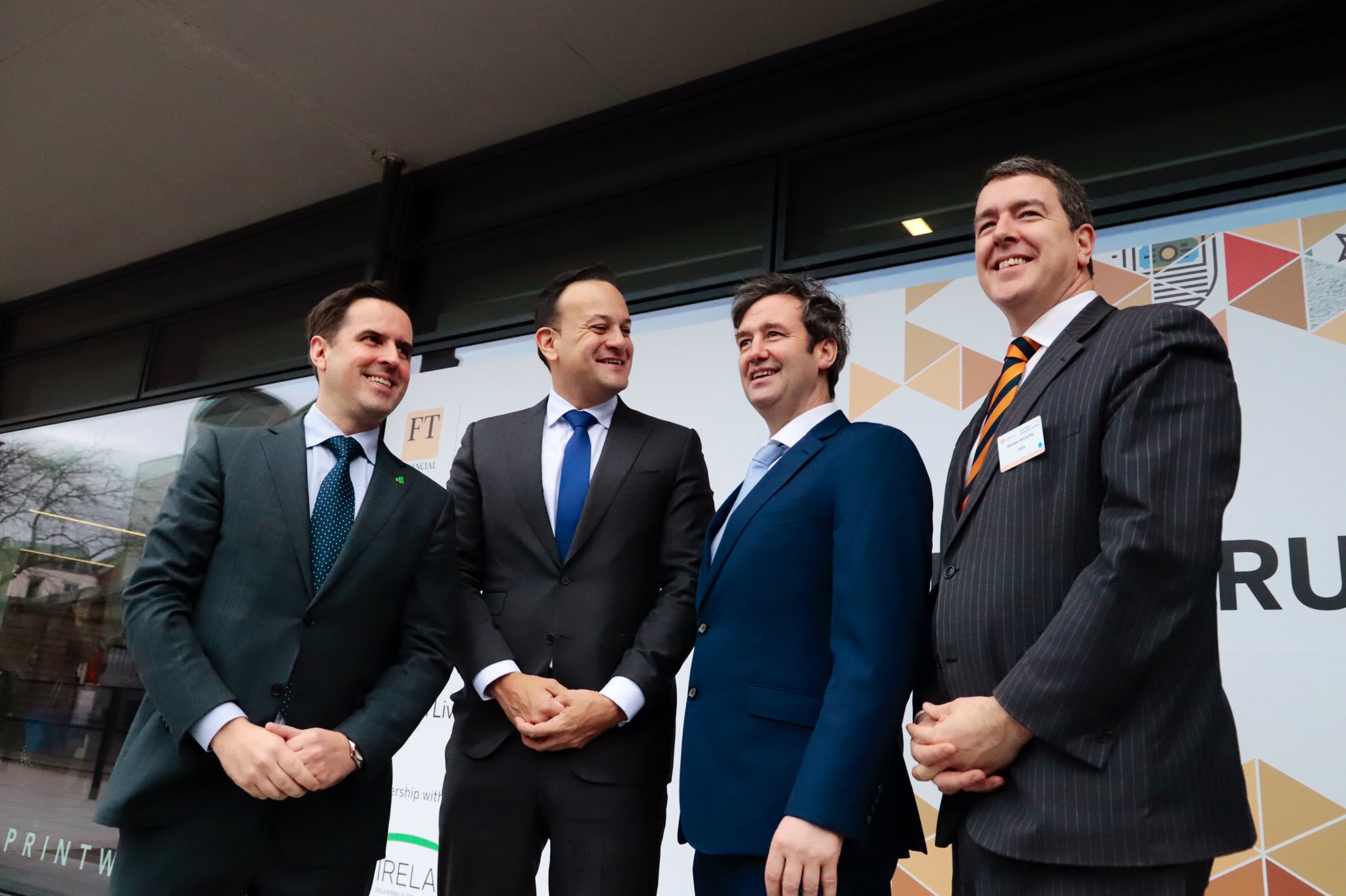 Minister D'Arcy pictured here with Taoiseach Leo Varadkar at European Financial Forum 2019